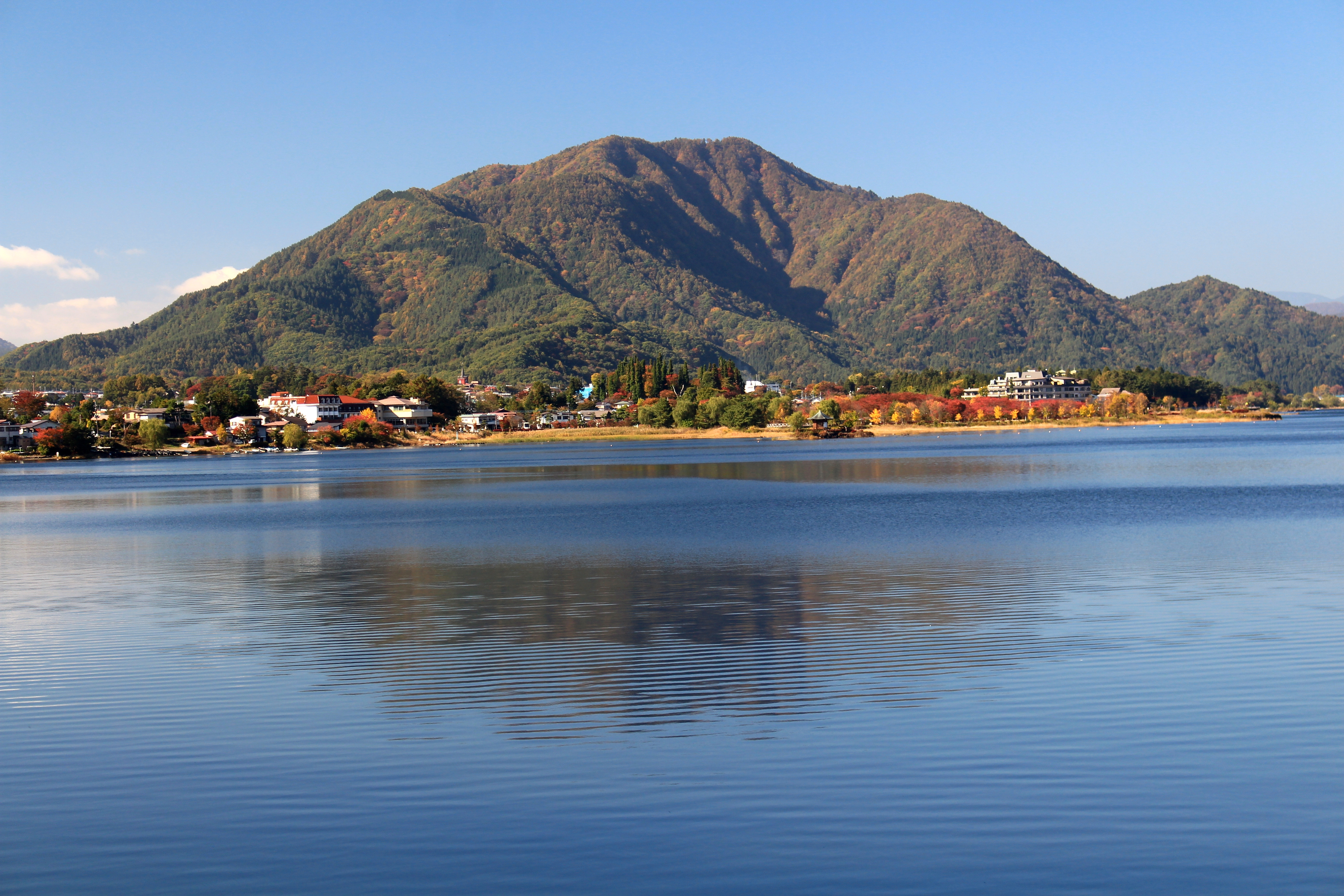 Mount Ashiwada and from Lake Kawaguchi, in Fujikawaguchiko, Yamanashi prefectre, Japan.